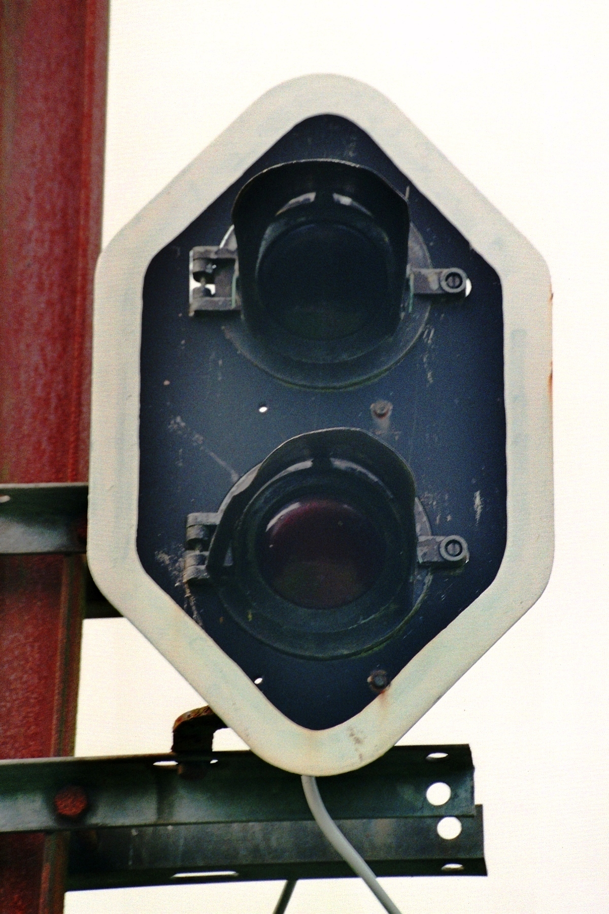 Keywords: SNCV, vicinal railways, rail, metre gauge, tram, train, signalling, light signal, Blier, Belgium